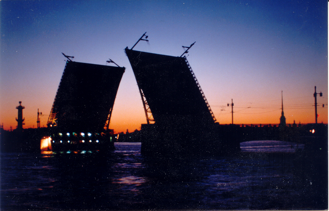 Saint Petersburg, Russia - Palace Bridge in White Nights